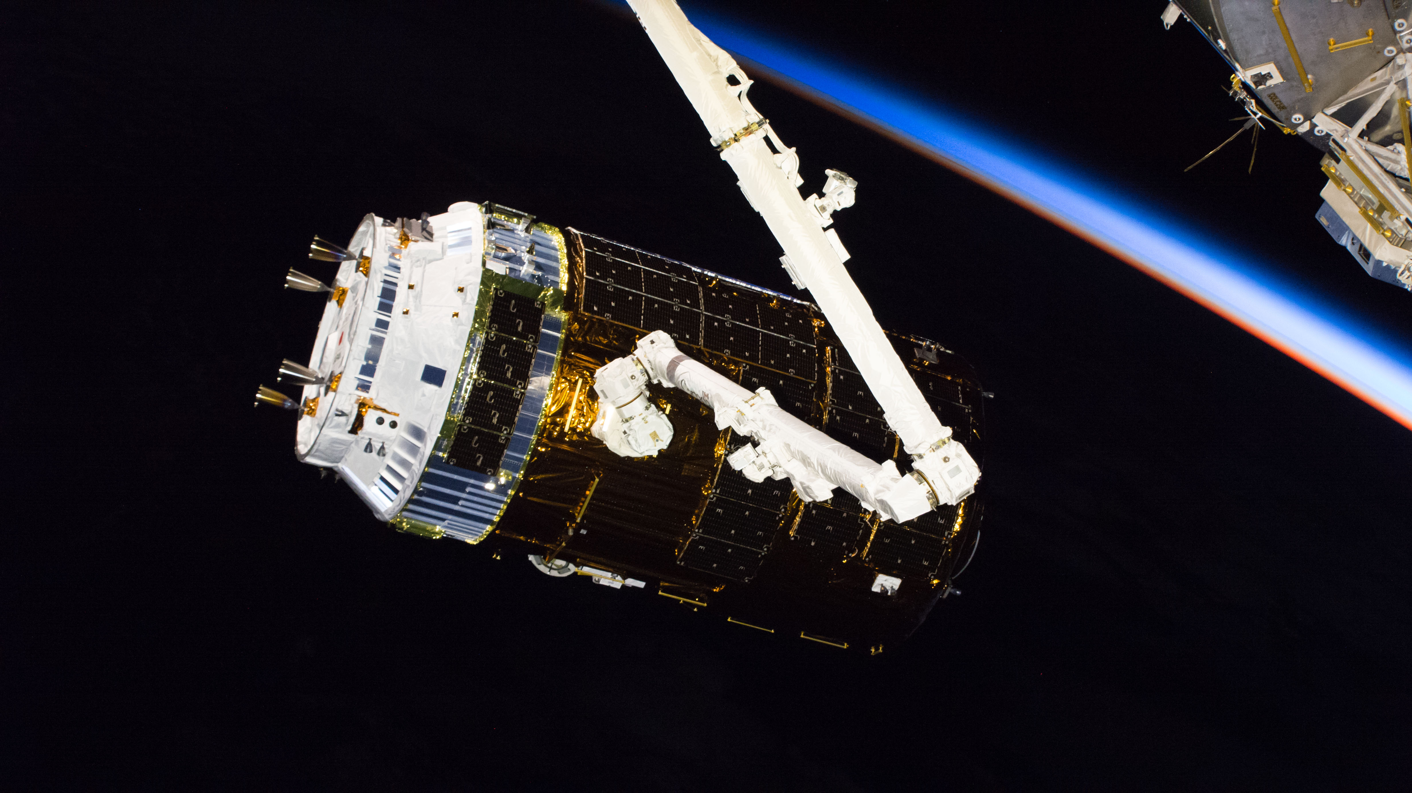 The H-II Transfer Vehicle-7 (HTV-7) from JAXA (Japan Aerospace Exploration Agency) is pictured after it was captured by the Canadarm2 operated by Expedition 56 Commander Drew Feustel as Flight Engineer Serena Auñón-Chancellor backed him up inside the cupola. The HTV-7 took a four and a half day trip to the space station after launching Sept. 22, 2018, from the Tanegashima Space Center in Japan.